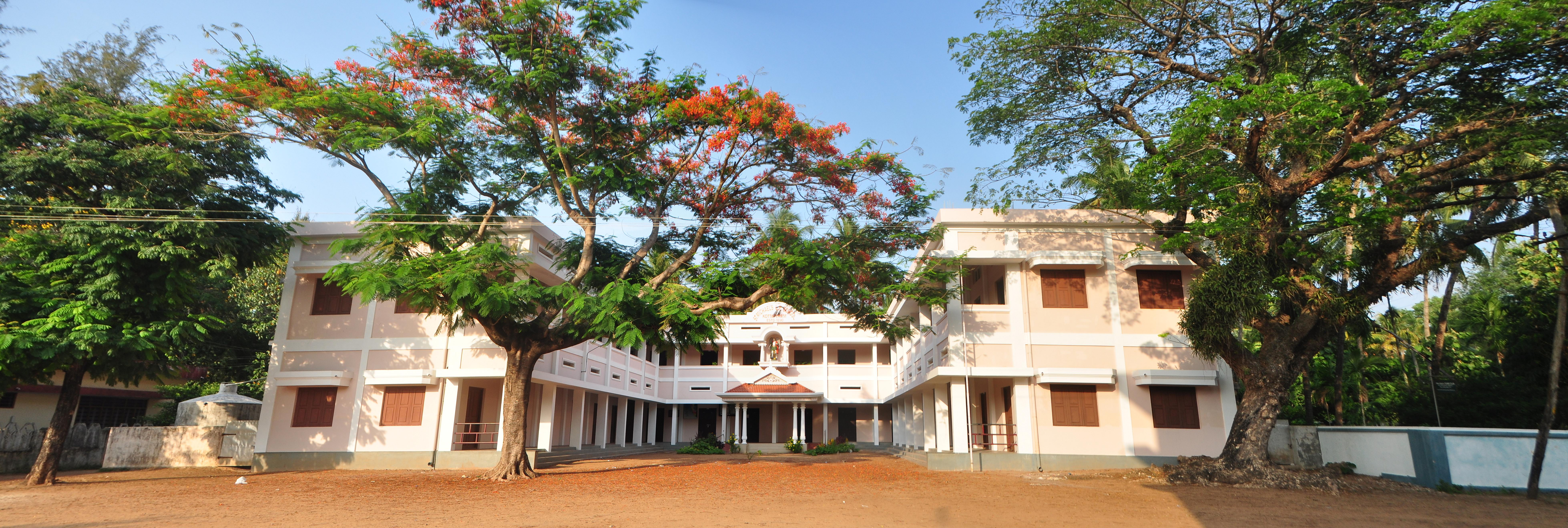 St. Micheals LP School of Kottapuram, Kodungallur